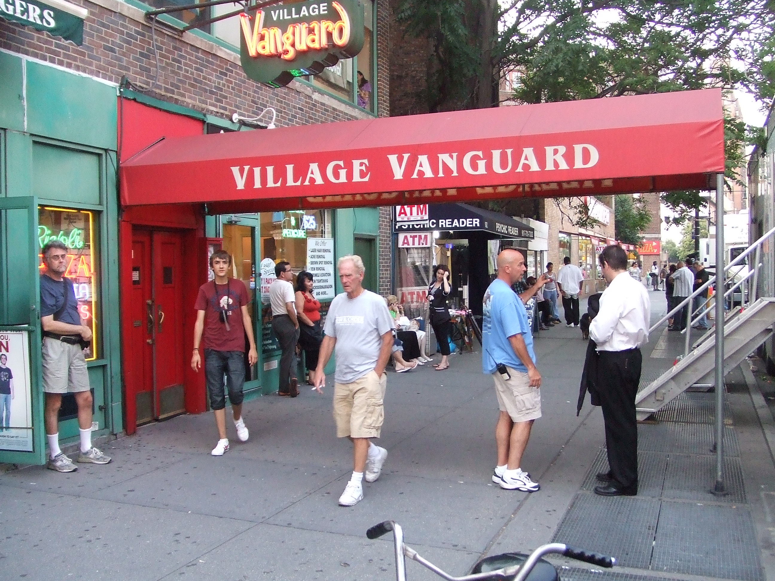 Entrance to Village Vanguard, NYC. (40.7359697,-74.0014945) Note : location trailers, film crew, equipment truck